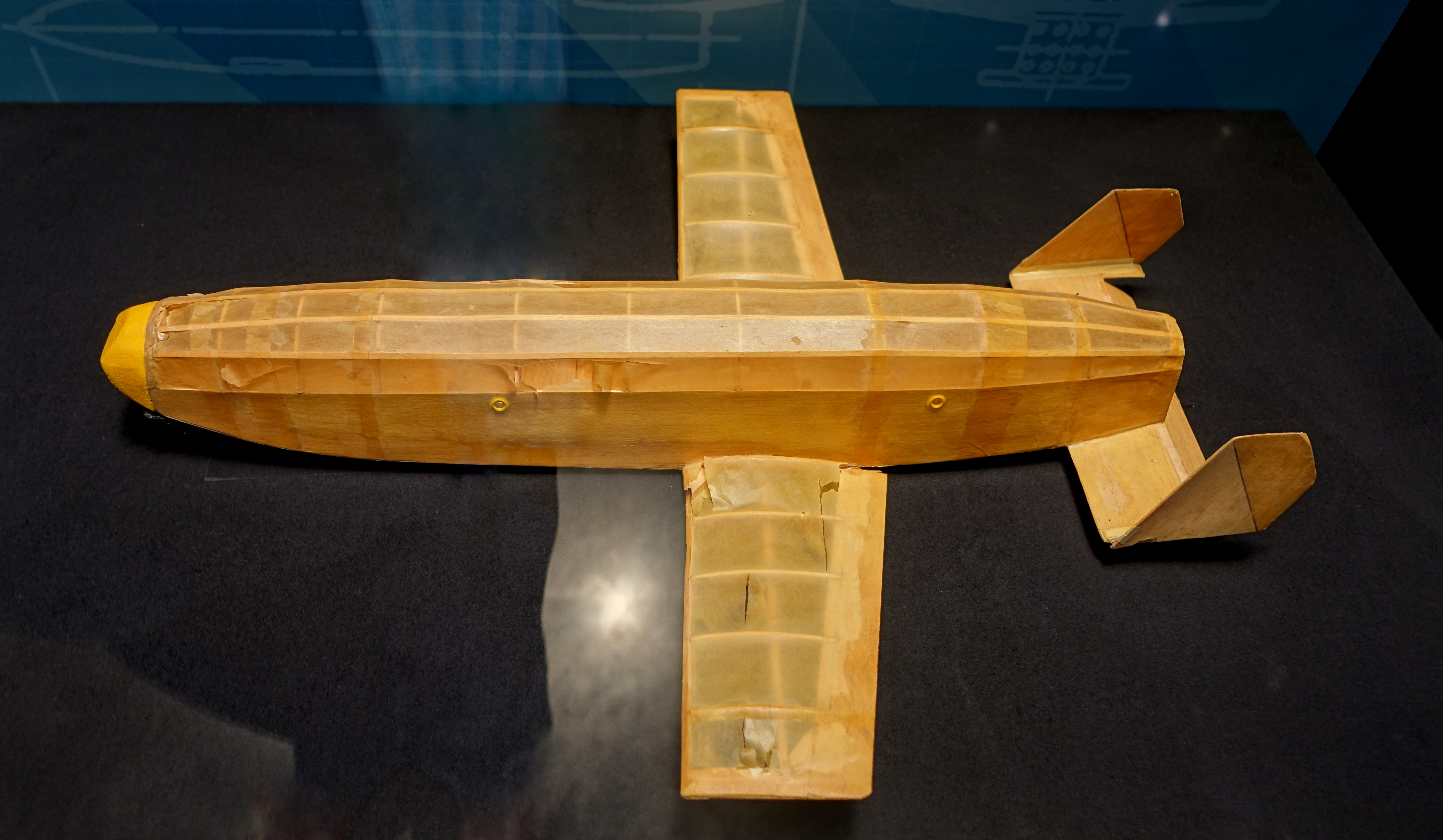 Exhibit at the Kennedy Space Center - Cape Canaveral, Florida, USA.